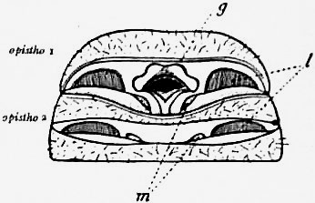 Thelyphonus assamensis ♂. Ventral surface of the anterior region of the opisthosoma, the first somite being pushed upwards and forwards so as to expose the subjacent structures. opistho 1, First somite of the opisthosoma; opistho 2, second do.; g, genital aperture; l, edges of the lamellae of the lung-books; m, stigmata of tergo-sternal muscles.(Original drawing by Pocock.)